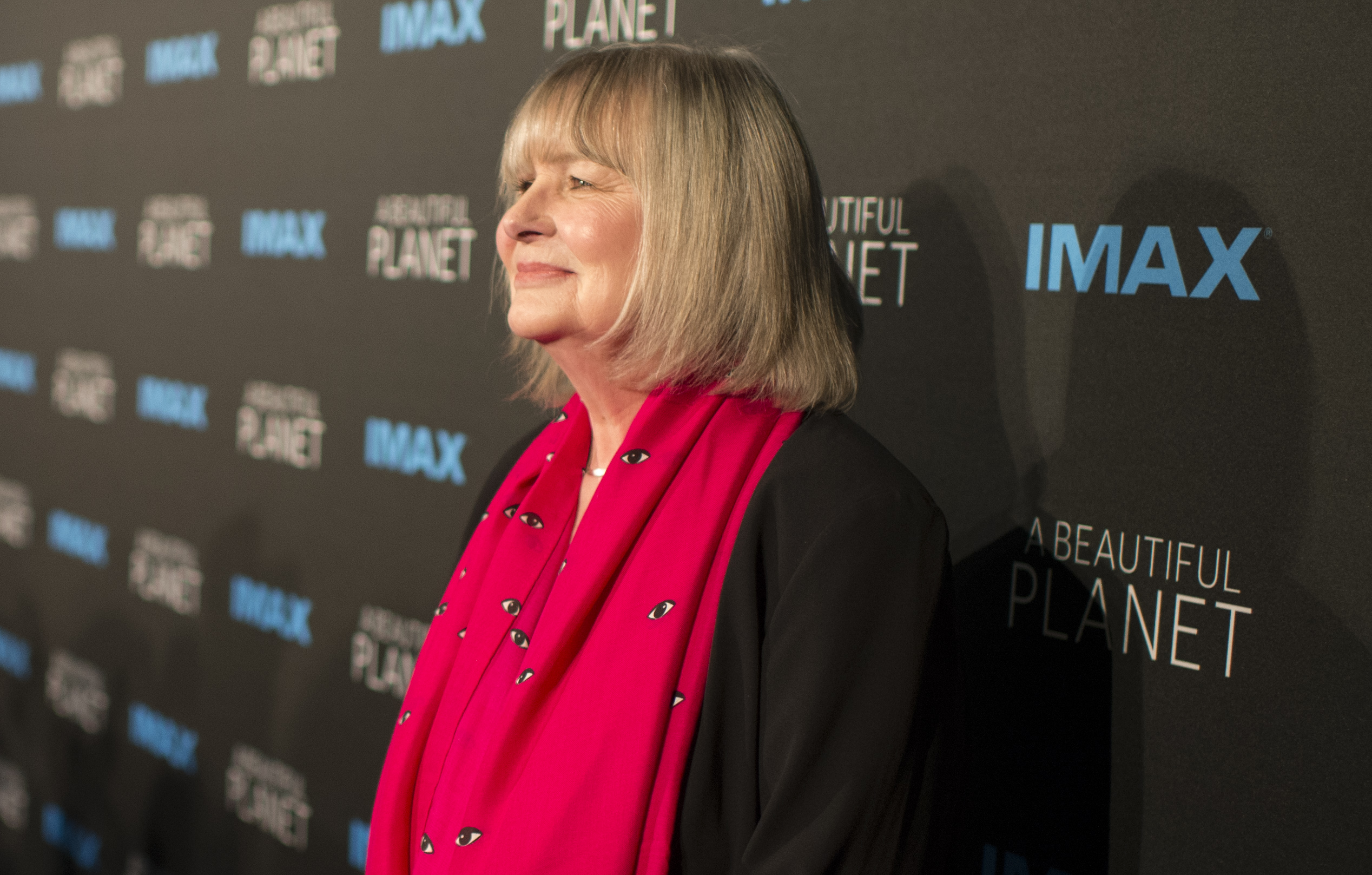 Writer and director Toni Myers attends the world premiere of the IMAX film "A Beautiful Planet" at AMC Lowes Lincoln Square theater on Saturday, April 16, 2016 in New York City. The film features footage of Earth captured by astronauts aboard the International Space Station.